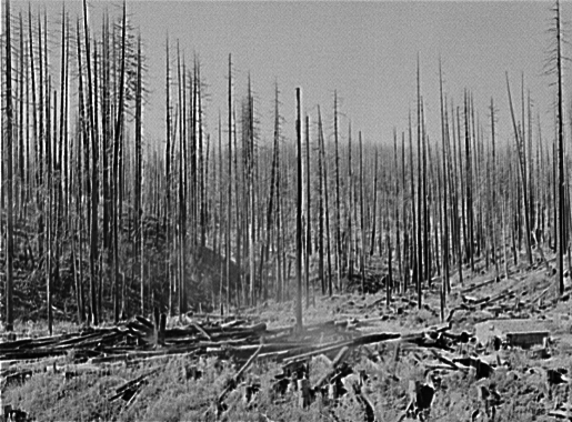 Tillamook burn, Tillamook County, Oregon